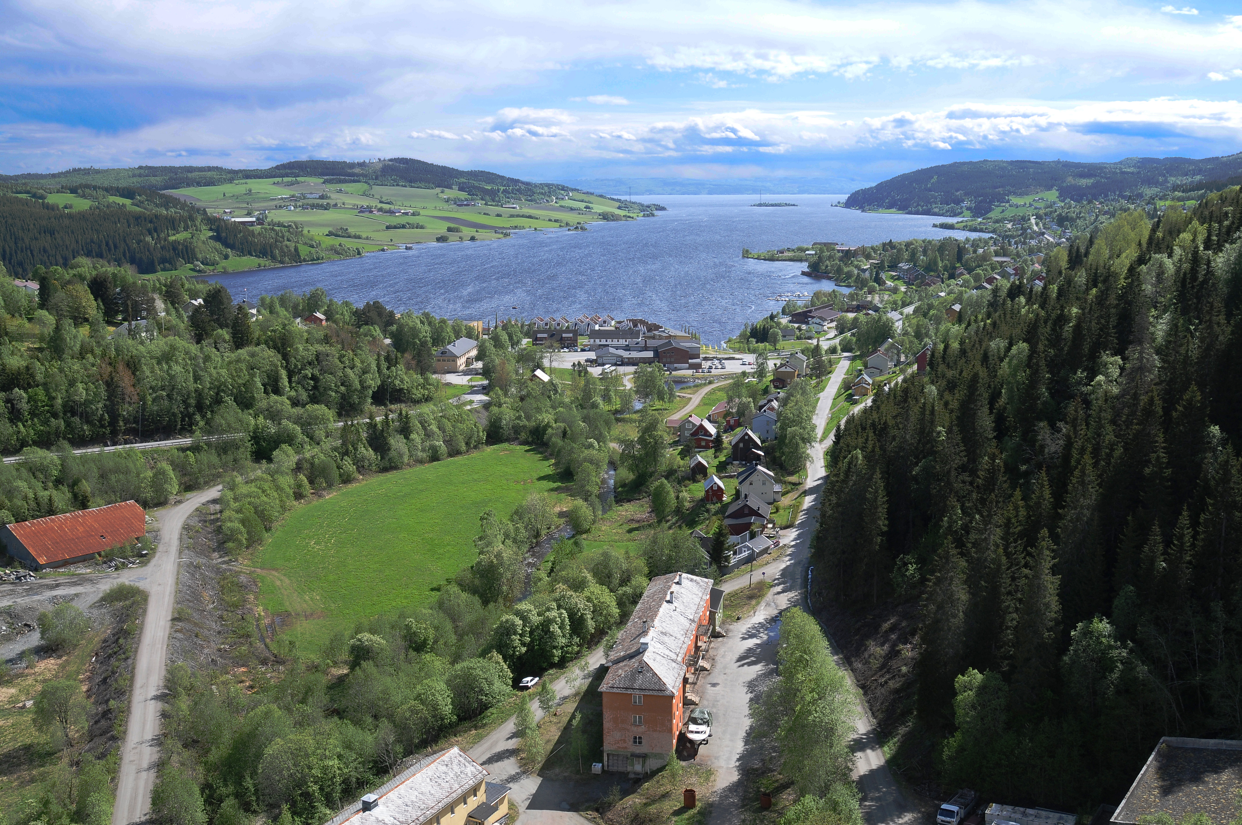 Malm, Verran, Norway. Picture taken from the top of the old mine. The Tower rages more than 70 metres over the ground, and the mine is more than 1200 metres deep. Beitstadsundet (Beitstadfjorden)